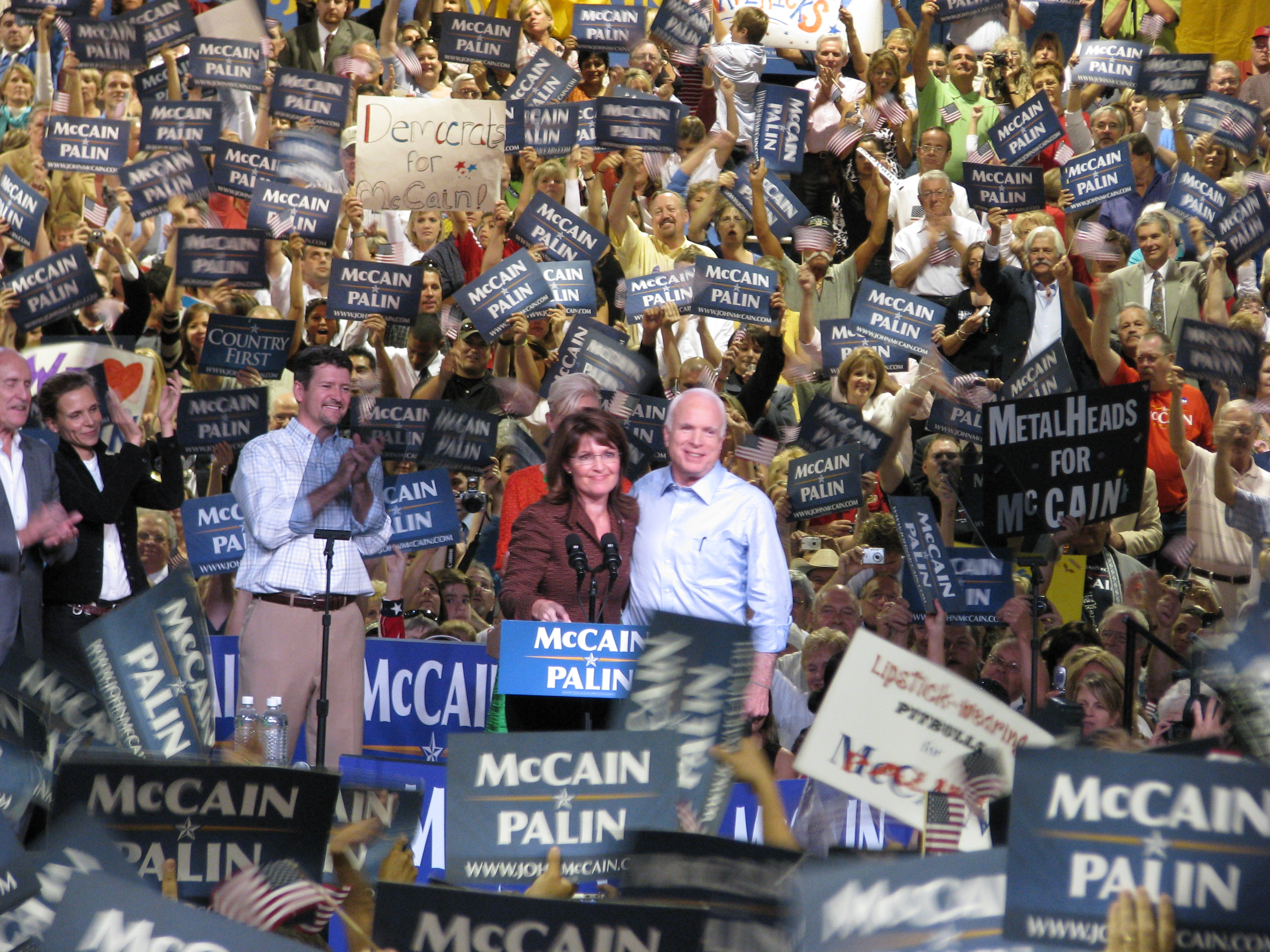 The GOP ticket, John McCain and running mate Sarah Palin, in Albuquerque, New Mexico on September 6, 2008. Todd Palin is behind teleprompter, Cindy McCain is behind Sarah Palin. Actor Robert Duvall is onstage to the left of Todd Palin.